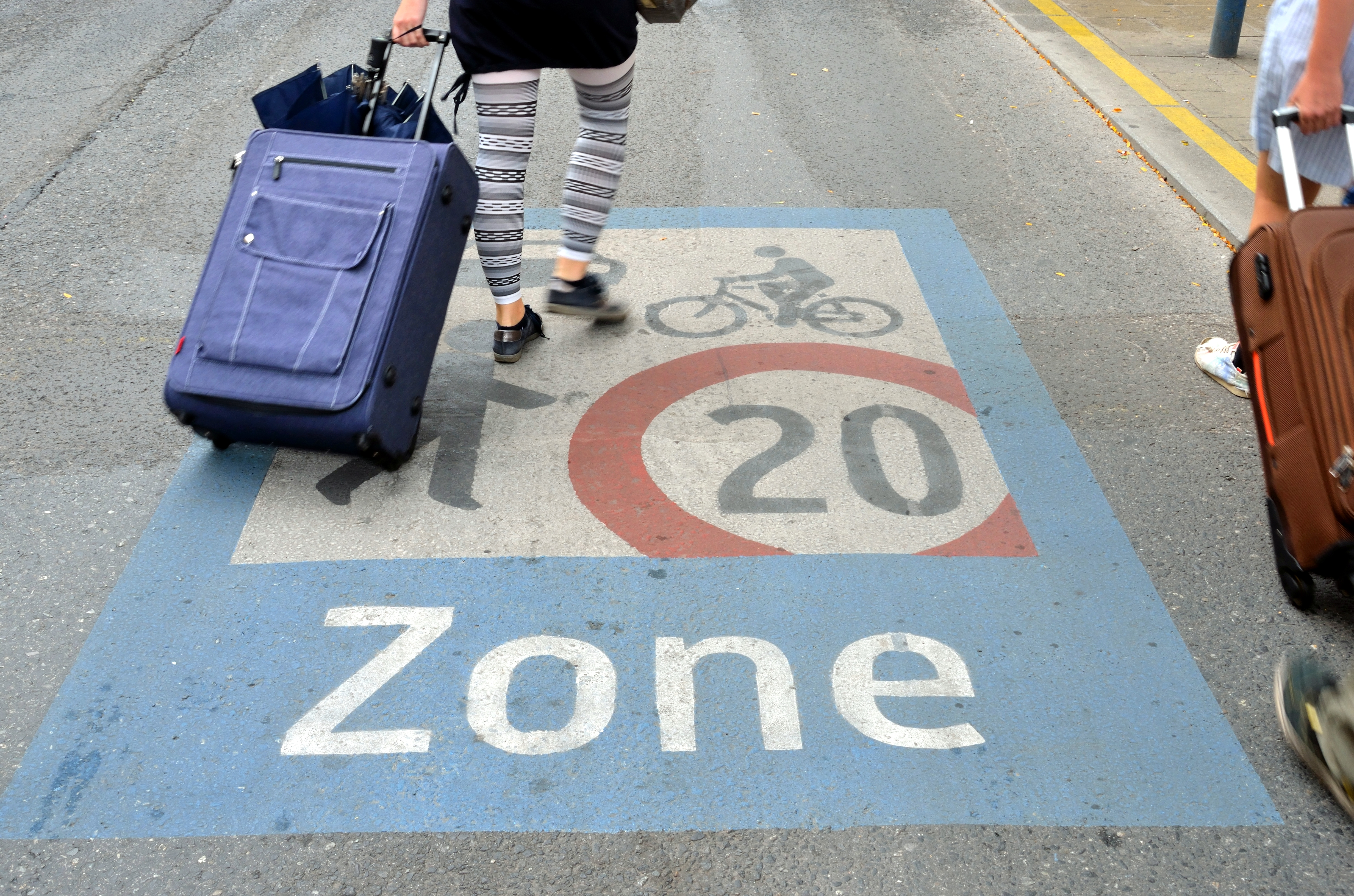 Road sign in the new pedestrian zone (established in August 2013) in the Vienna Mariahilfer Straße.